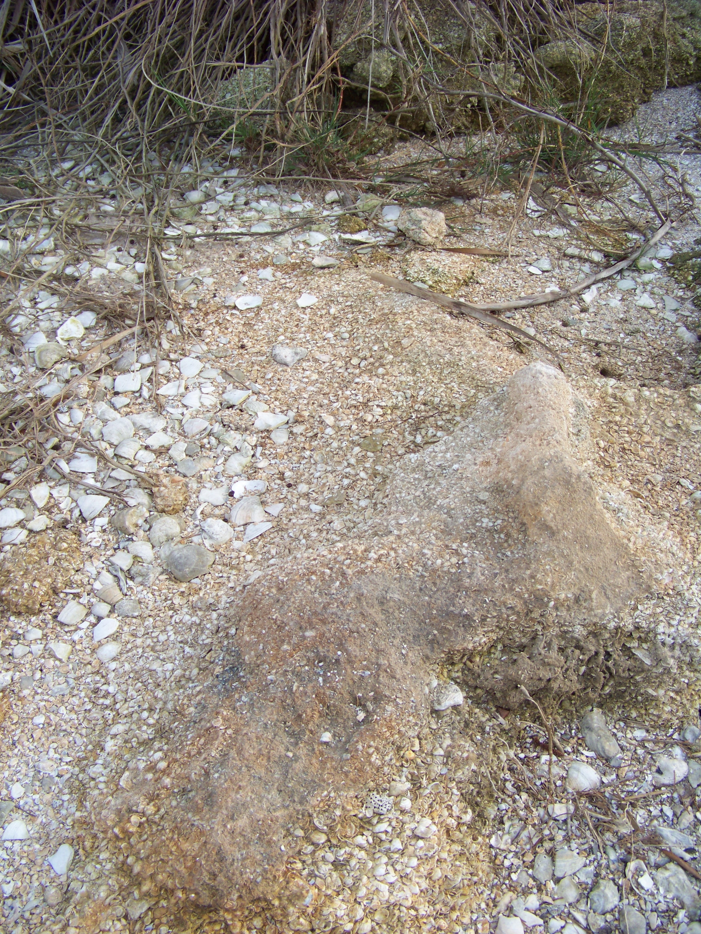 Remains of oyster midden at Nocoroco site in Tomoka State park, Ormond Beach, Volusia County, Florida